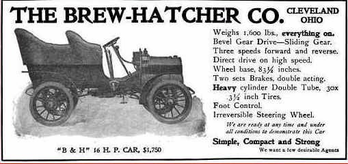 Image of a 1905 Brew-Hatcher 16 H.P. automobile advertisement